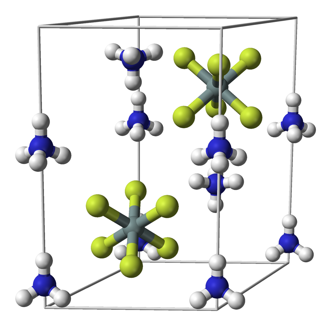 Ball-and-stick model of the unit cell of diammonium hexafluorosilicate, (NH4)2SiF6. X-ray crystallographic data from Acta Cryst. (2001). E57, i90-i91. Model constructed in CrystalMaker 8.1. Image generated in Accelrys DS Visualizer.